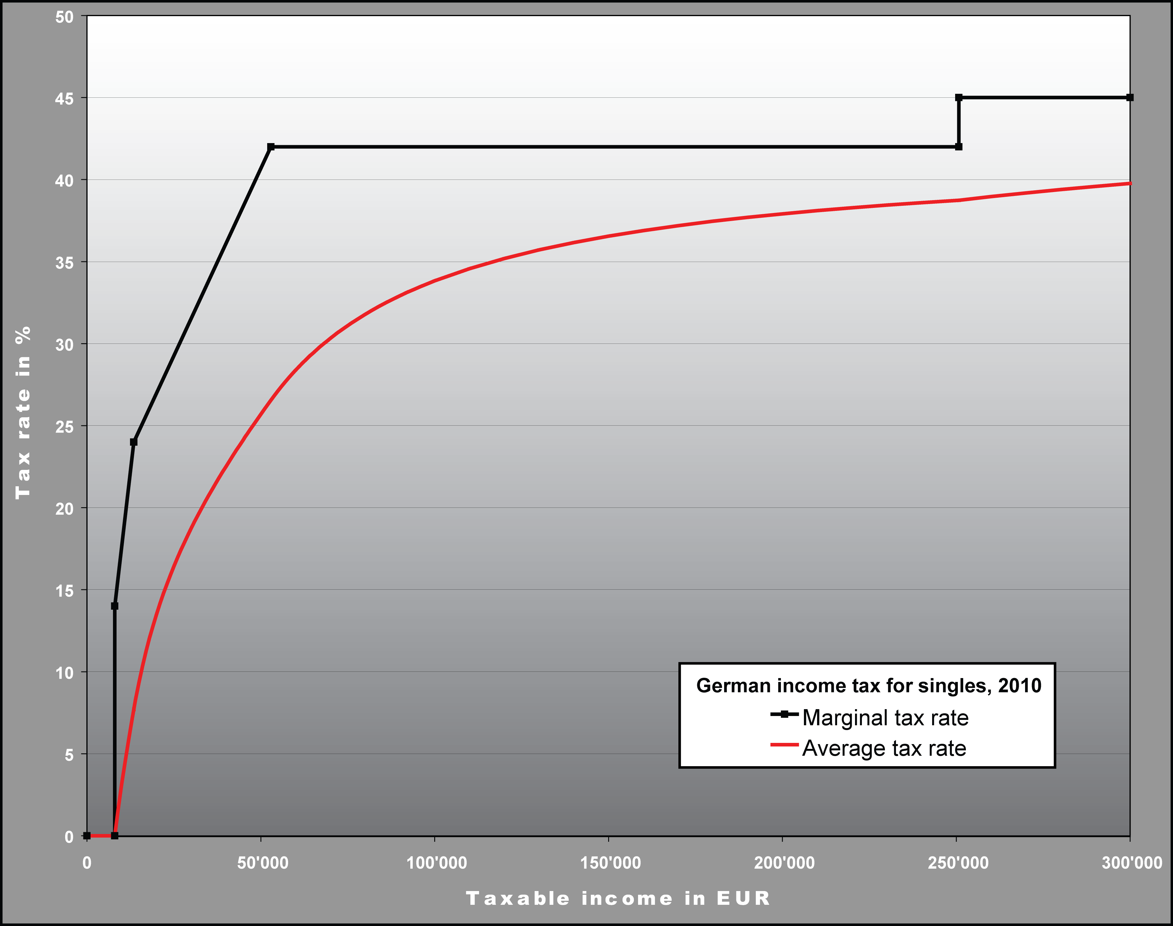 The graphs illustrate the rise of the tax rates (marginal and average) as a function of the taxable annual income according to the German taxation law effective in 2010.[1] ↑ German income tax law (Einkommensteuergesetz – EStG)